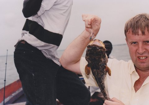 Angling in Gambia man with a fish